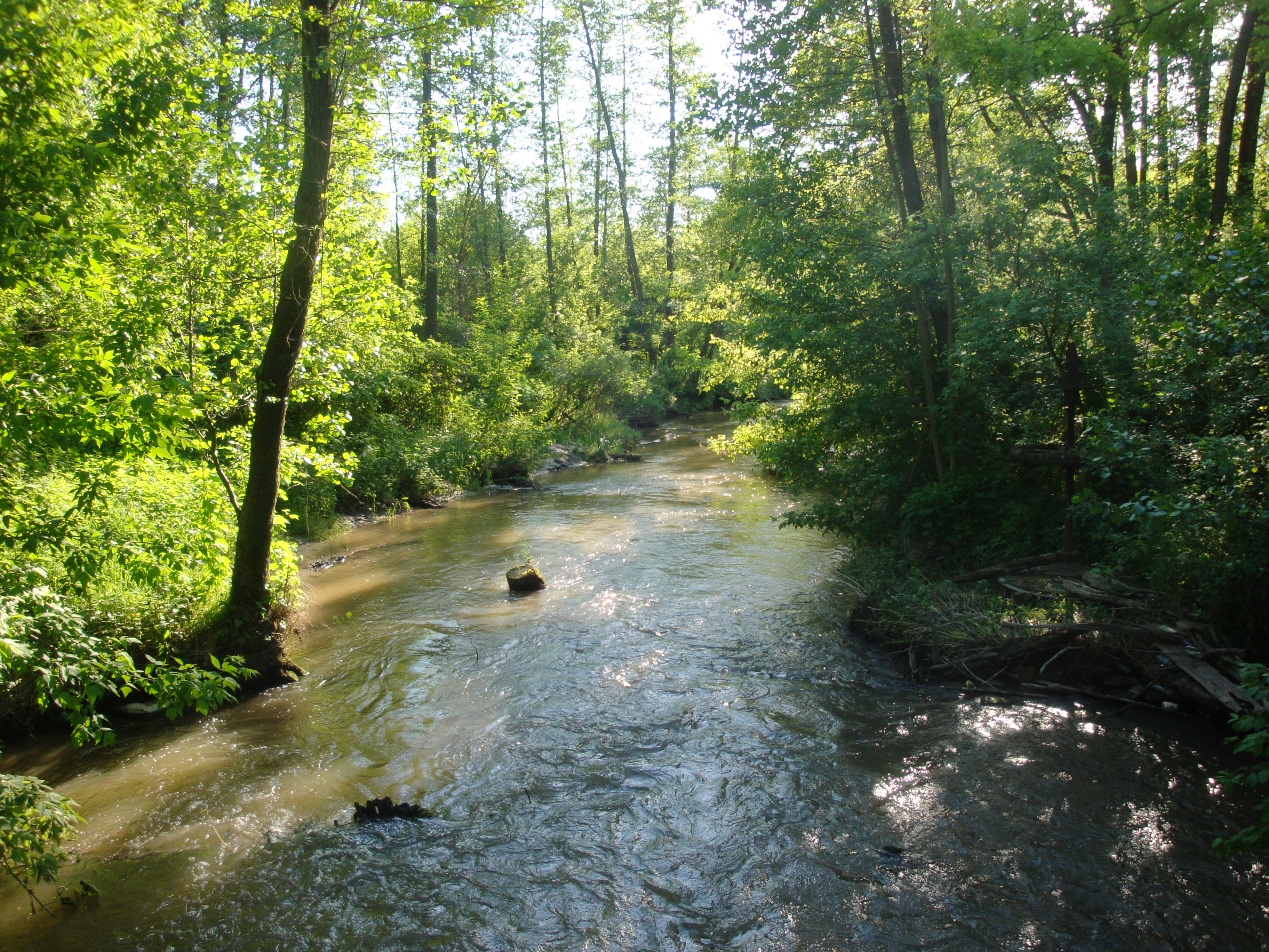 Bór - village in Opole Lubelskie County, Poland. Wyżnica river